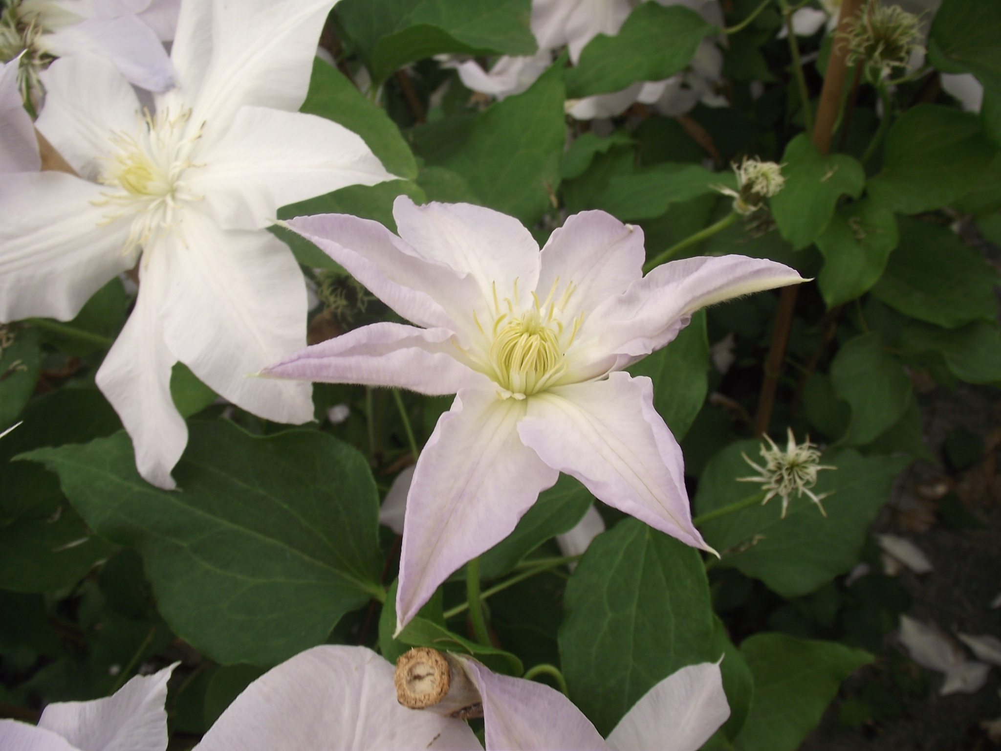 Clematis patens evipo003